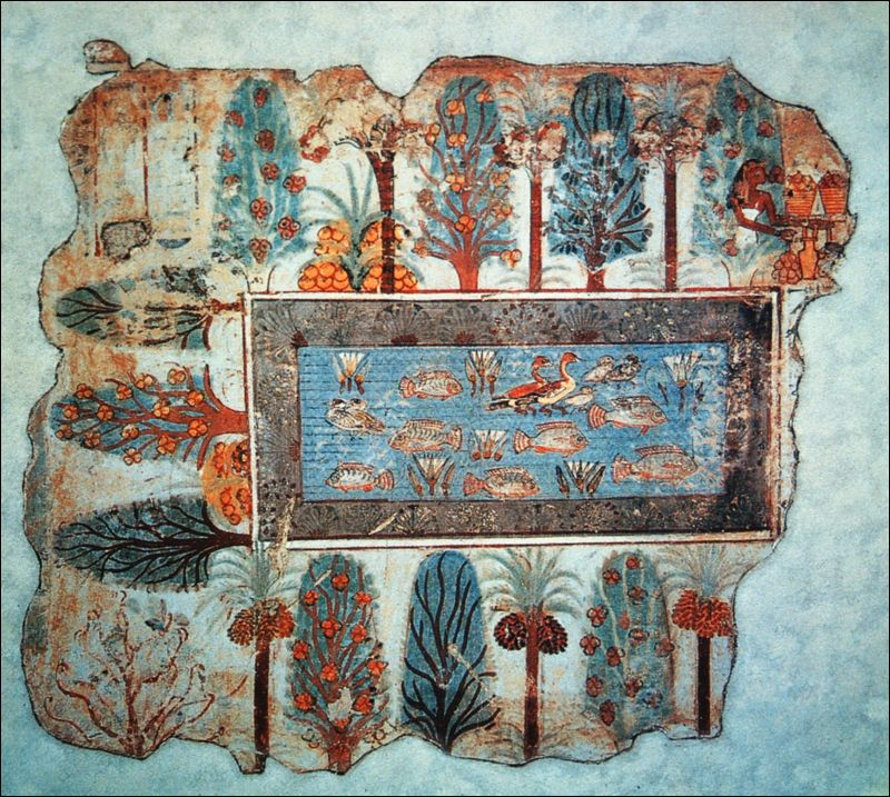 Pond in a garden. Fragment from the Tomb of Nebamun